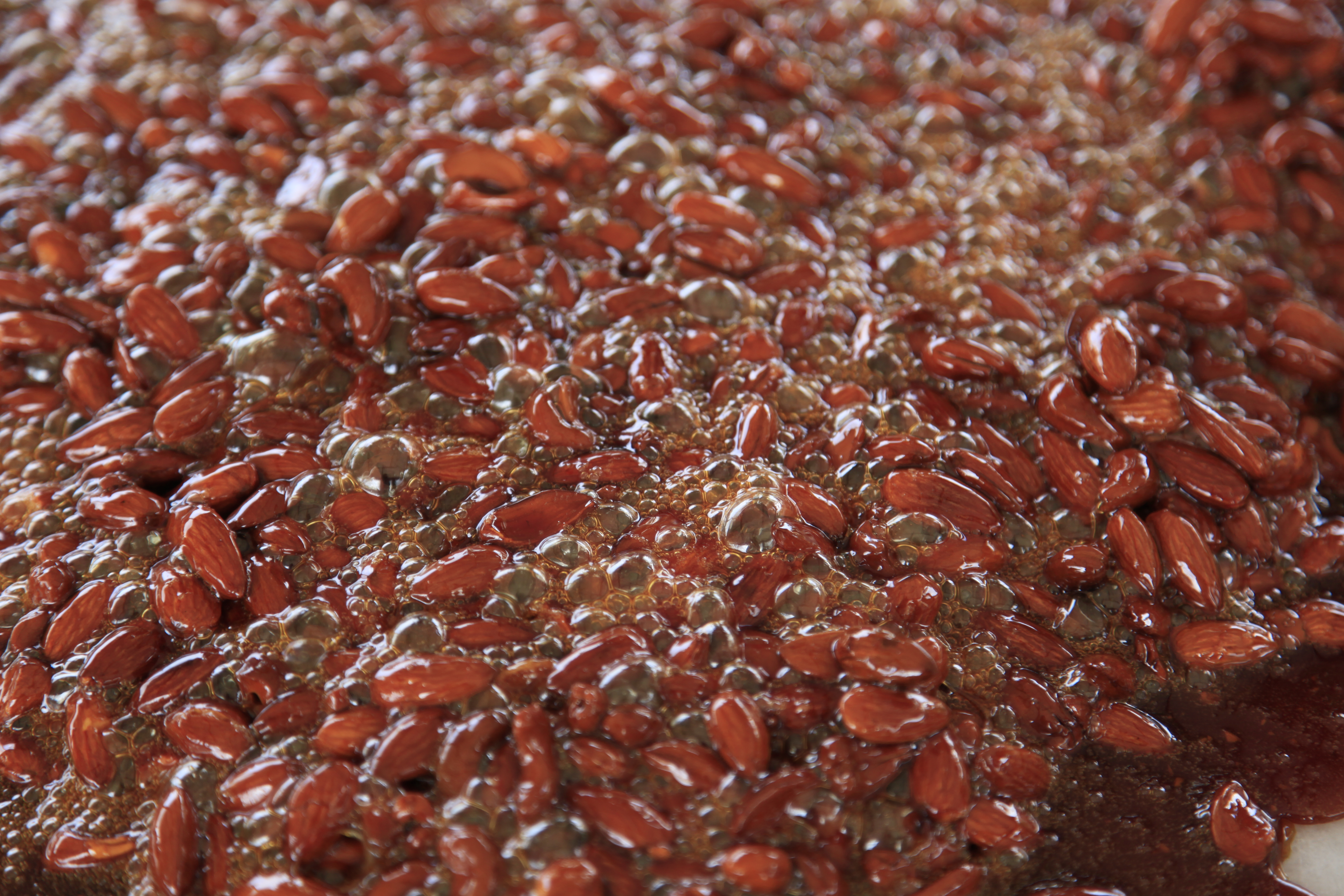 [1]This work is licensed under a Creative Commons Attribution 3.0 Unported License. [ Este trabajo está licenciado bajo una Creative Commons Attribution 3.0 Unported Licencia . ] Esta foto la pongo a disposición de quien la quiera emplear bajo licencia Creative Commons Attribution 3.0 Unported License (Si vas a emplear alguna y quieres dejar un comentario, pues mejor) This photo was made available to those who want to use under a Creative Commons Attribution 3.0 Unported License (If you want to use one and leave a comment, because better)